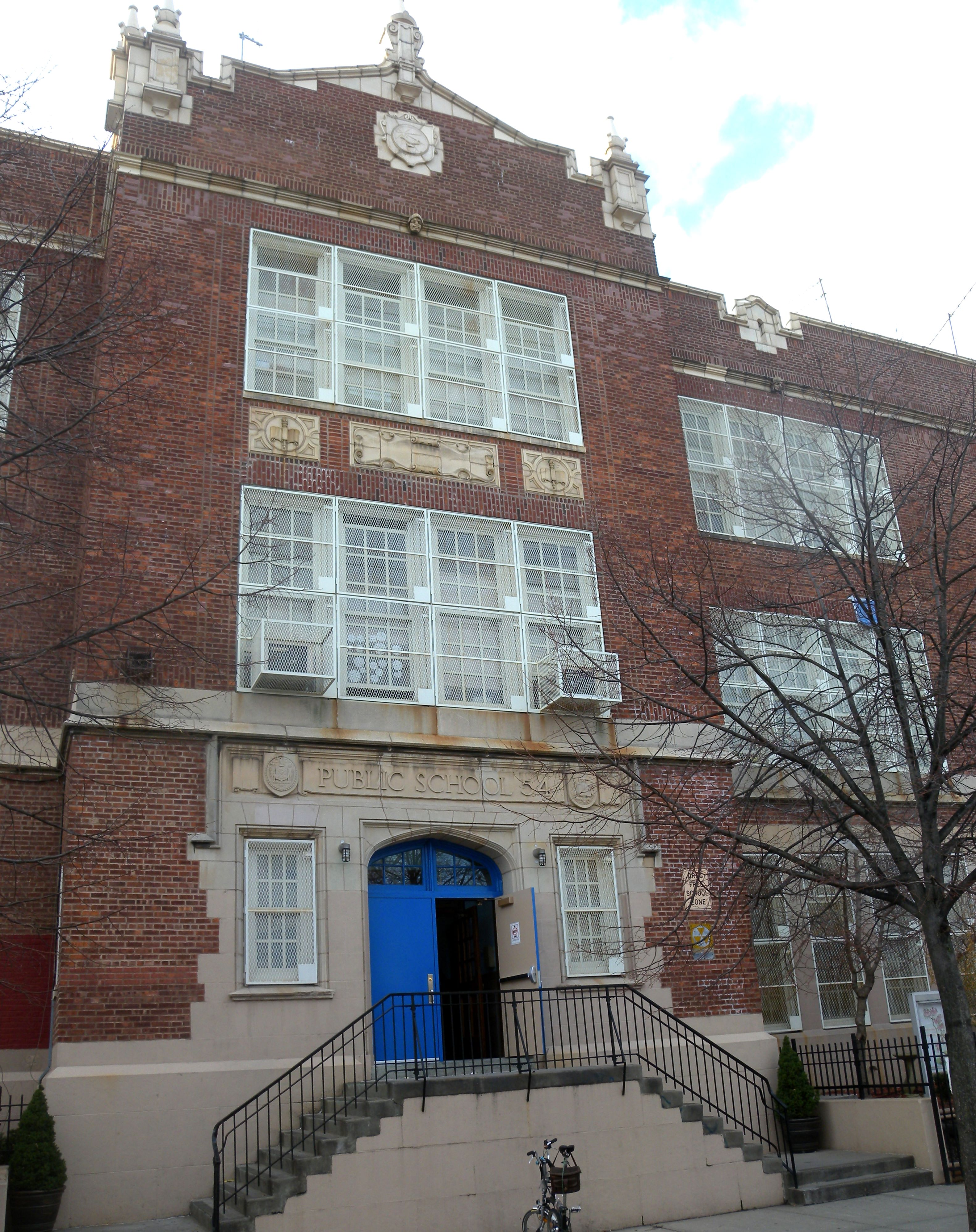 Looking west across 127th Street at Hillside School on a sunny early afternoon.